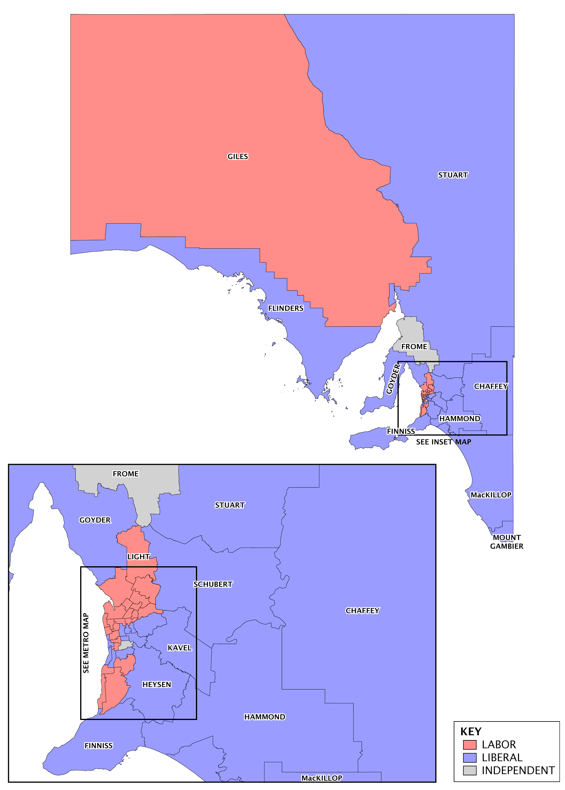 Map of electoral districts in the state of South Australia, coloured to represent the party winning the seat at the 2014 South Australian state election and changes since. Inset to Metro map refers to File:SA-Election2014-adelaide-map.png.